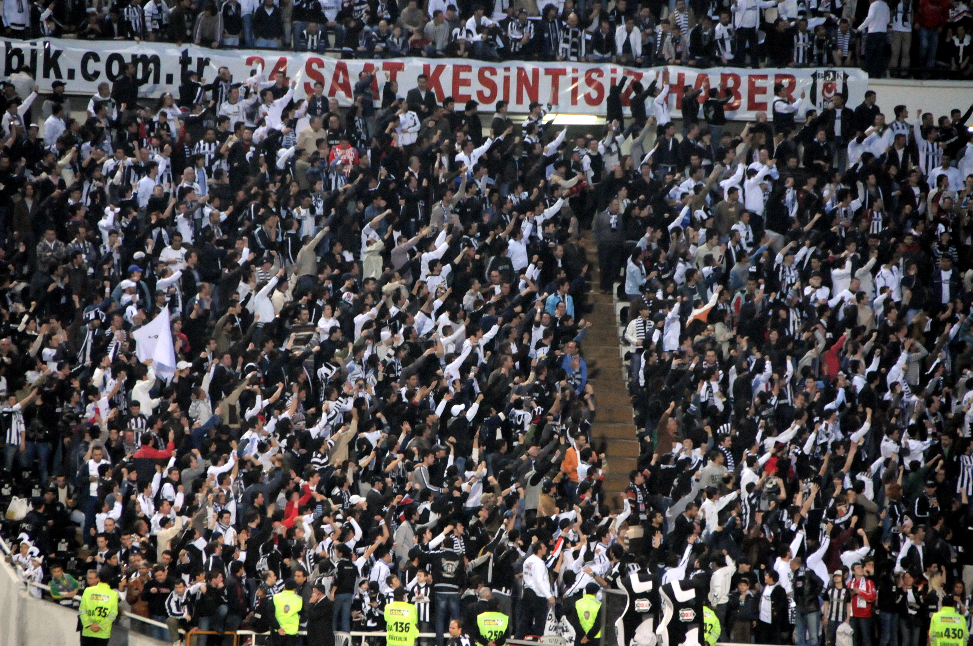 BJK footbaal team supporters during a match.